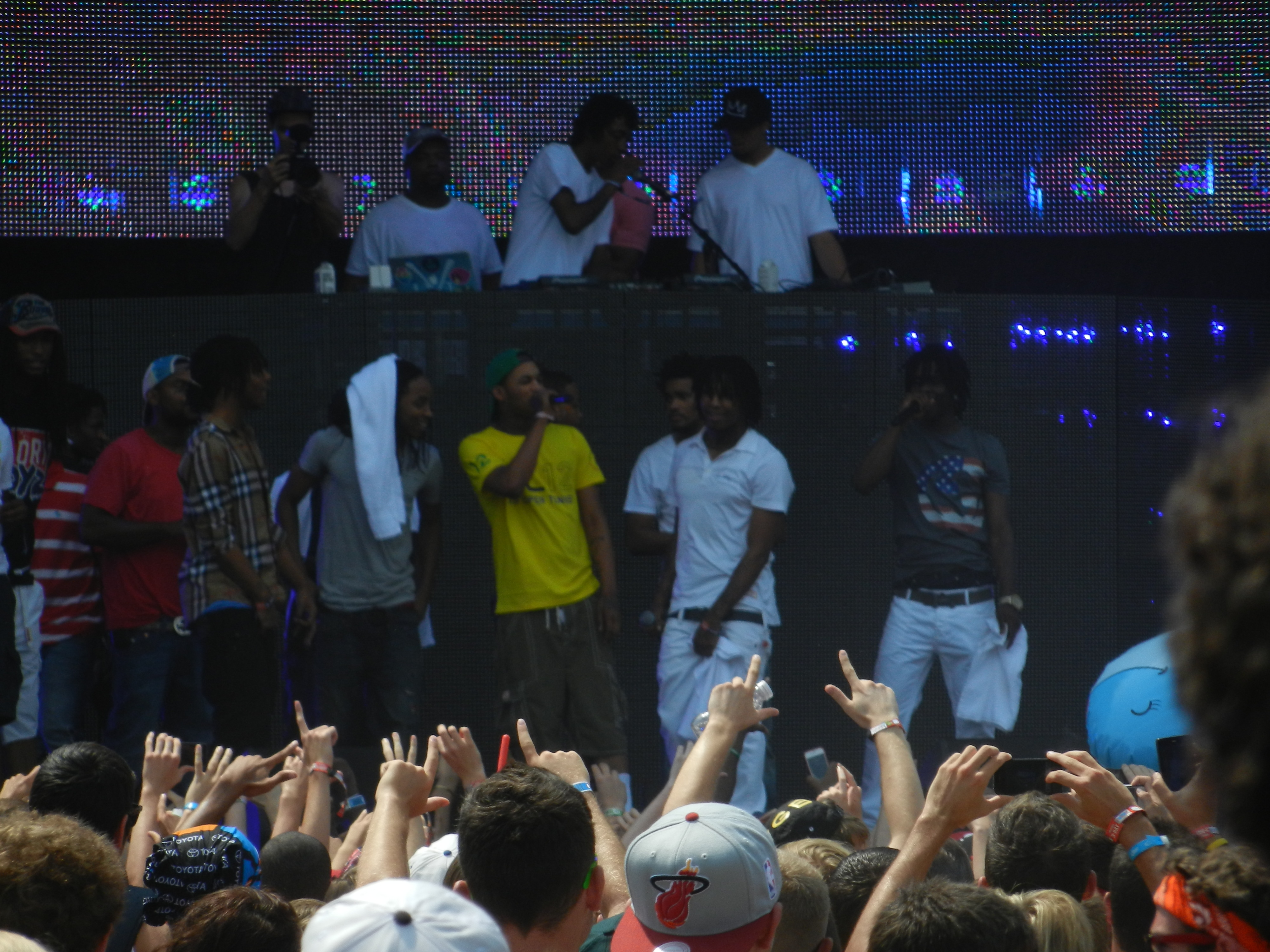 Chief Keef (far right, in grey) at Lollapalooza 2012